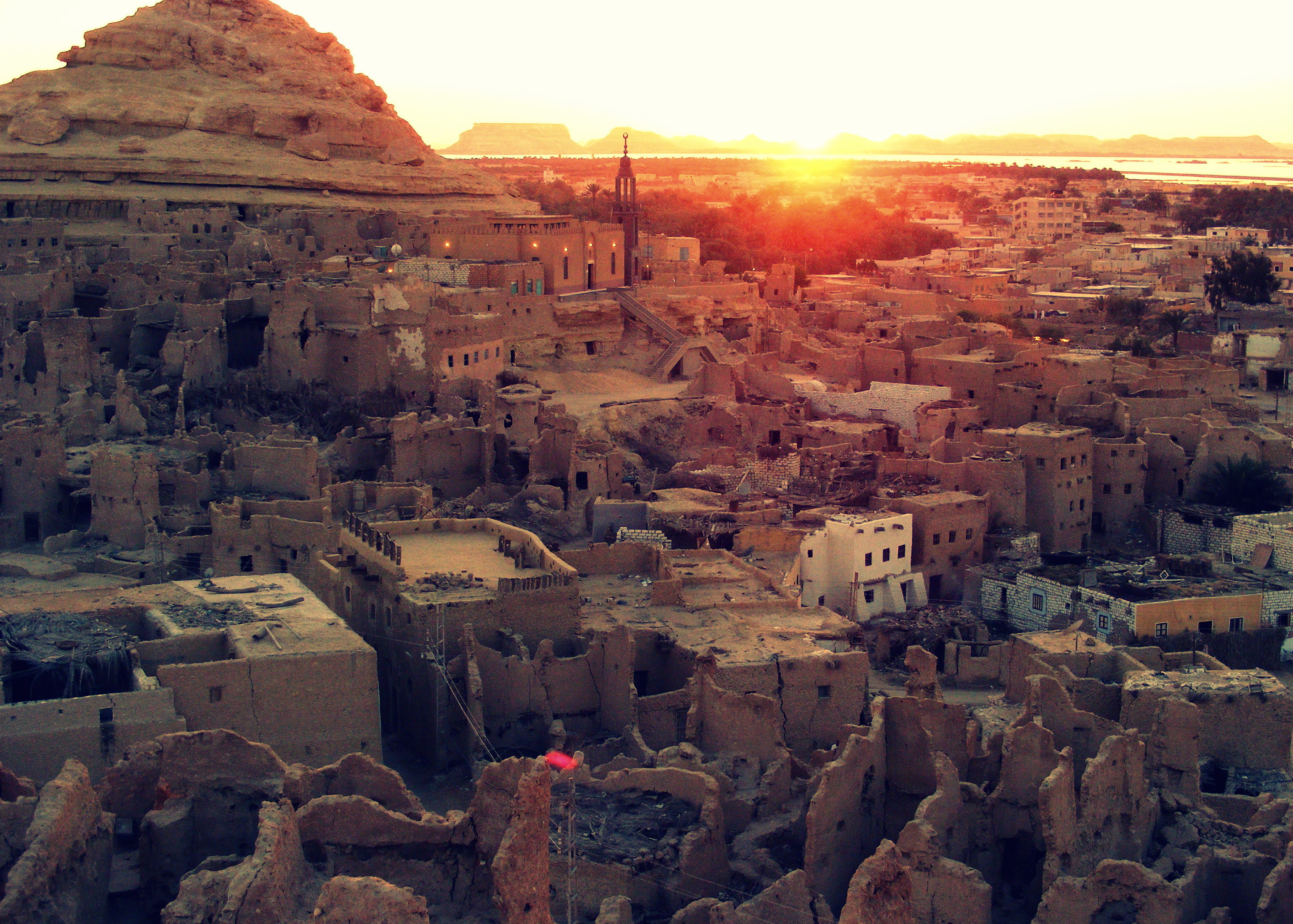 The ruins of an ancient city in Siwa with the sunrise in the horizon